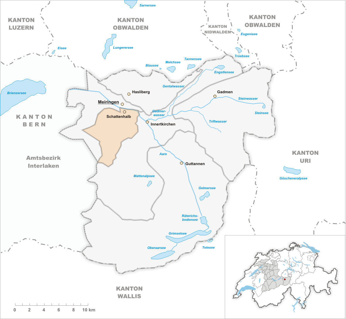 Municipality Schattenhalb